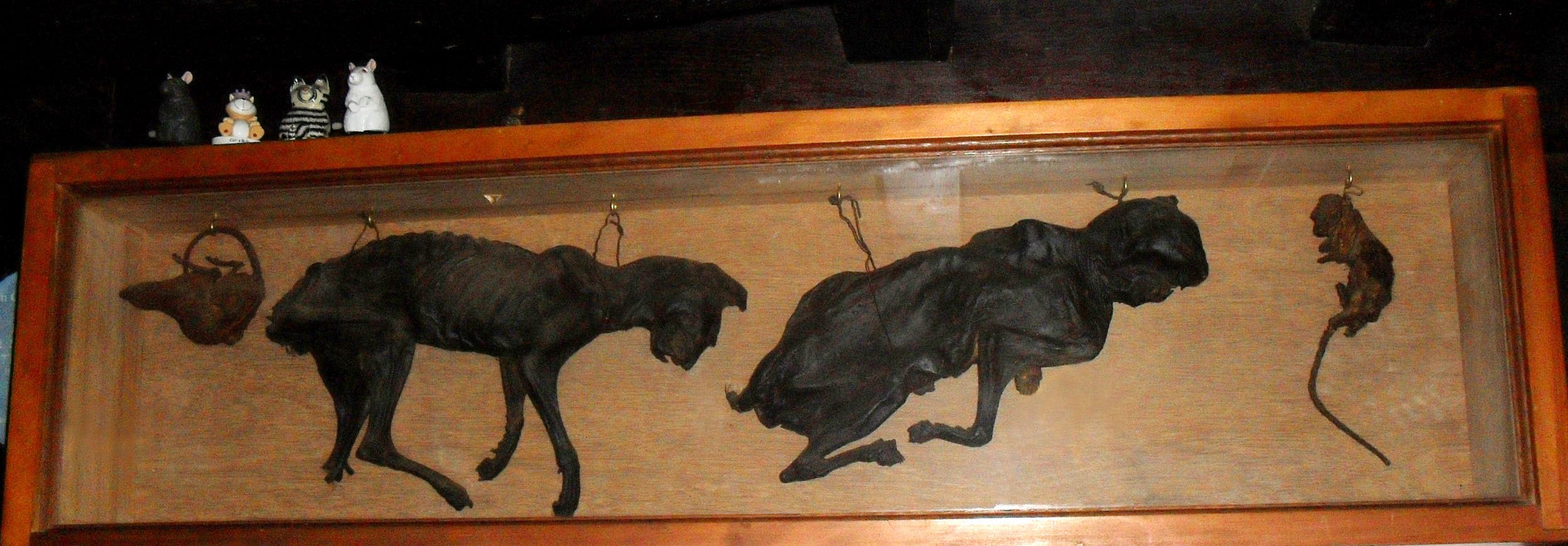 Two mummified cats displayed on the wall of the 16th-century Stag Inn, 14 All Saints Street, Old Town, Hastings, East Sussex, England.